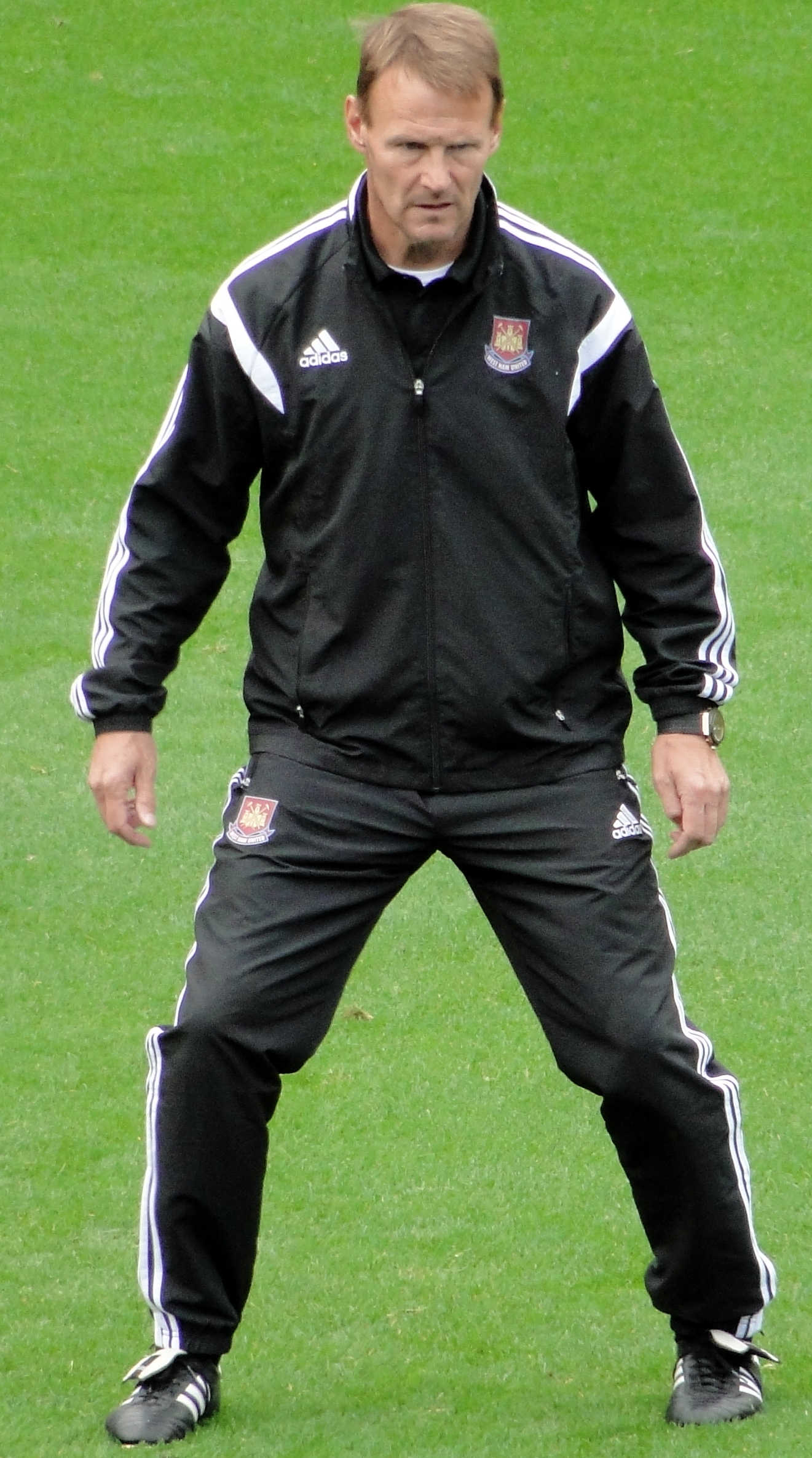 Former footballer, Teddy Sheringham as coach of West Ham United at the Boleyn Ground, October 2014